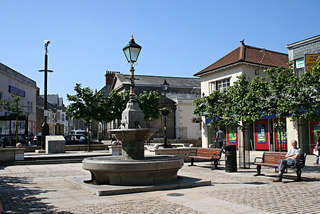 Commercial Square, Camborne Commercial Square is at the heart of Camborne town centre and the fountain at the centre of the photograph is a well-known local meeting place. The lamp standard on the fountain dates from 1890. A more modern invader is the CCTV camera on a high pole keeping a watchful eye from the background.